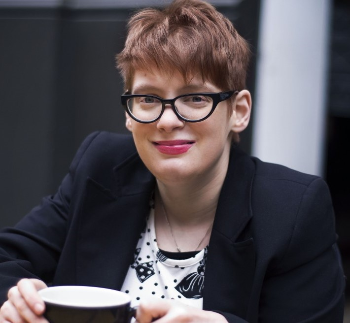 Kelly Vincent at a café on Leigh Street in Adelaide, South Australia.